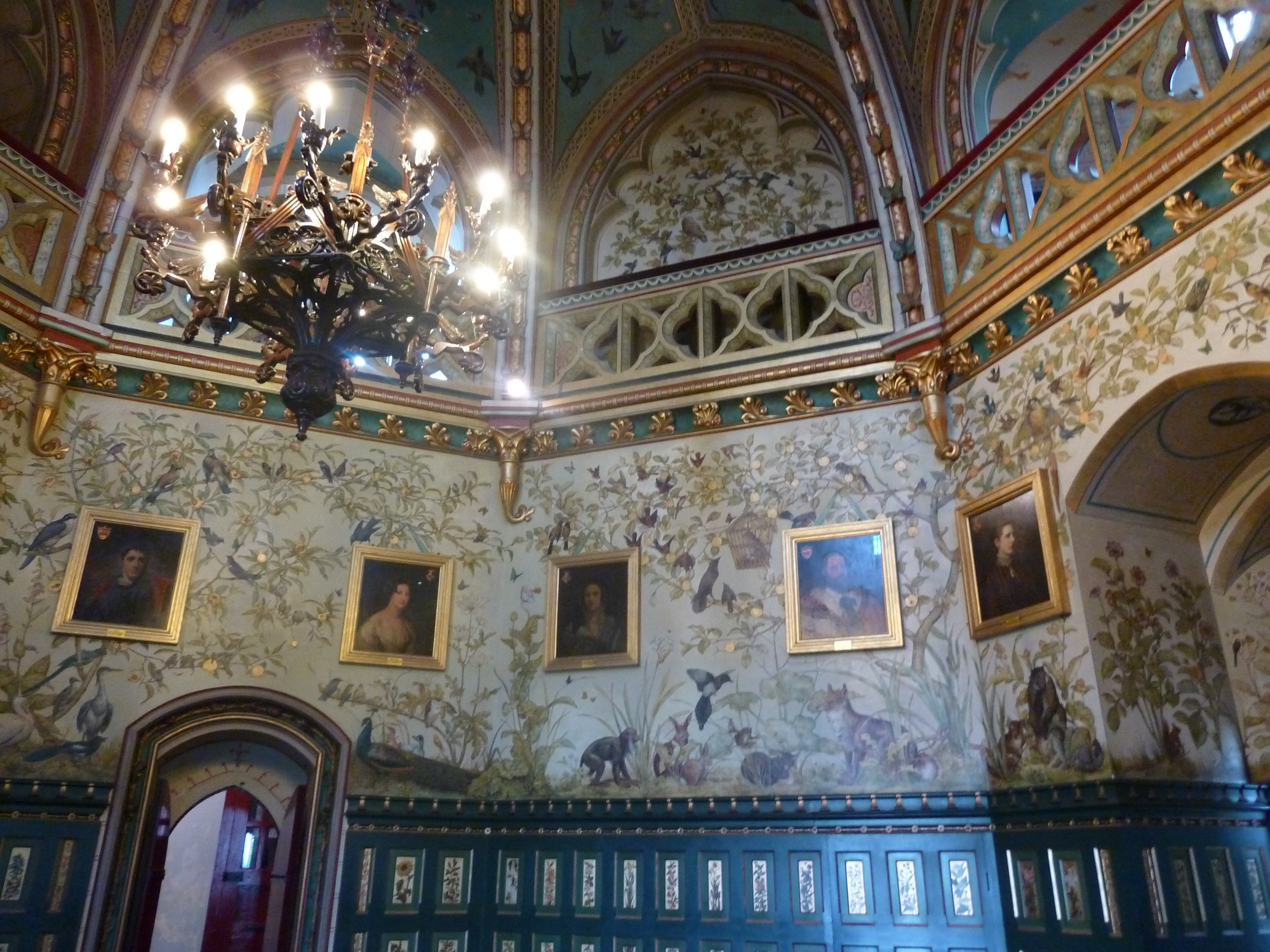 Drawing room at Castell Coch, Wales